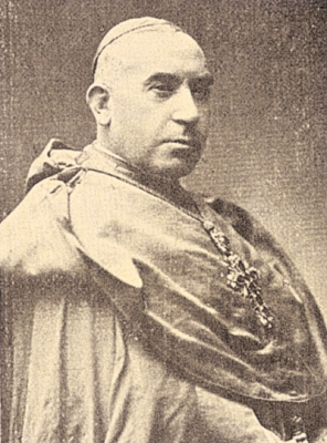 Portrait of Cardinal Soldevila y Romero of Saragossa (1843-1923)